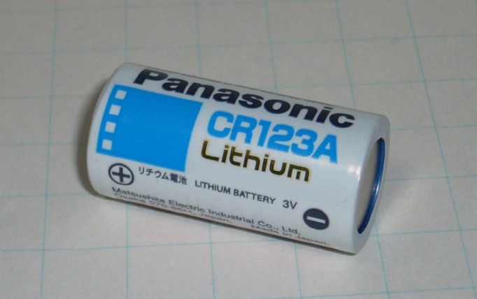 This photograph is a battery lithium CR123A.